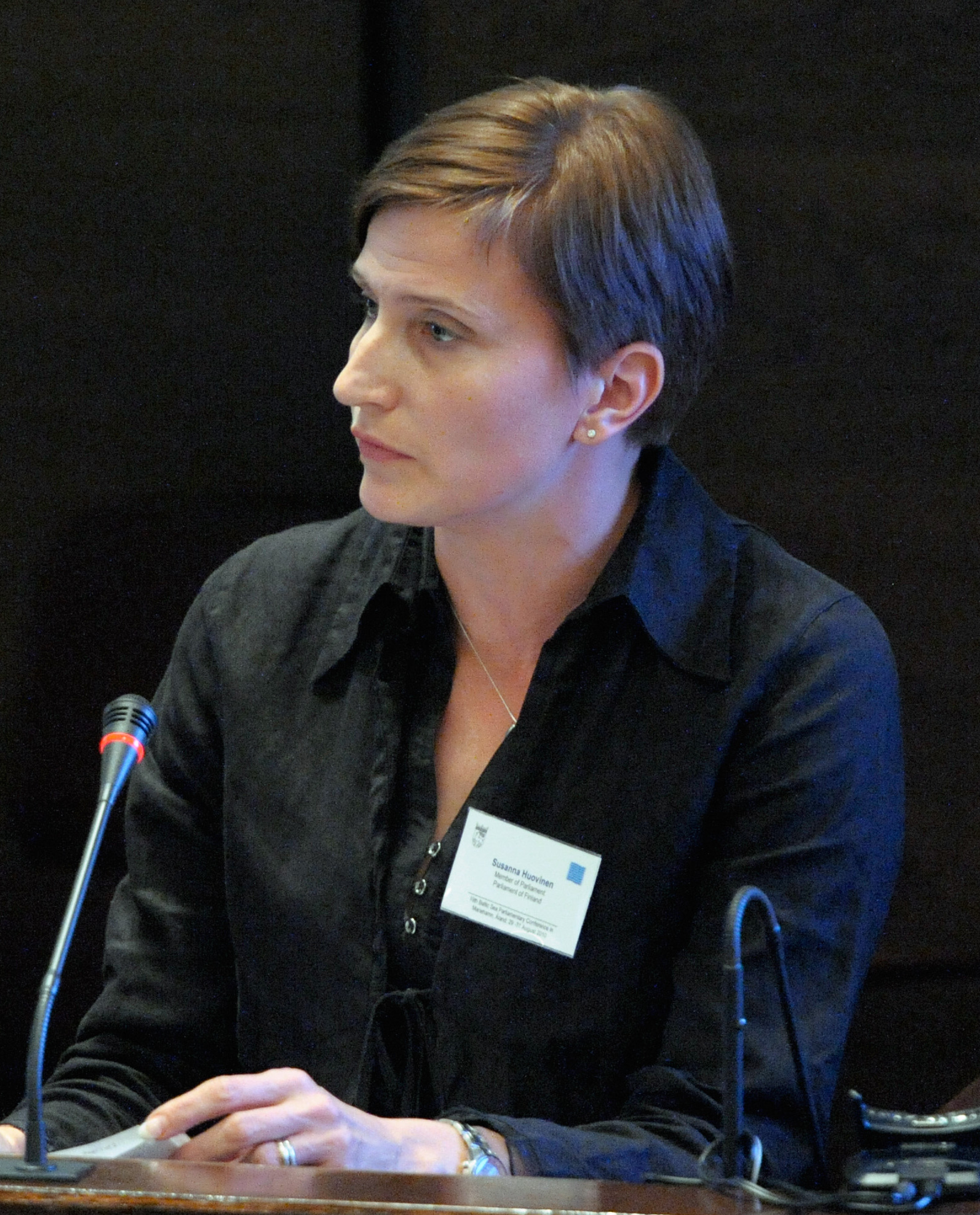 Former government minister and Member of Parliament of Finland for the Social Democratic Party Susanna Huovinen in Baltic Sea Parliamentary Conference meeting in Mariehamn, Åland, Finland